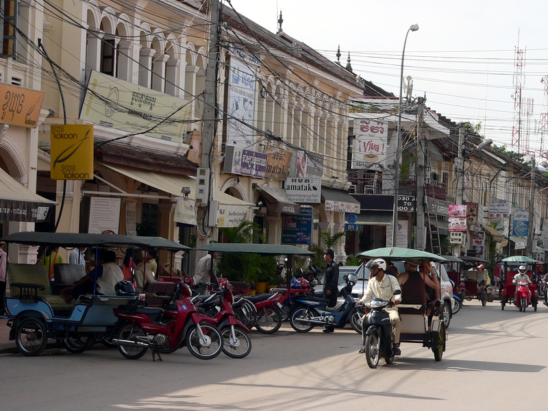 Siem Reap, Cambodia. Hospital Street in Old Market Area.